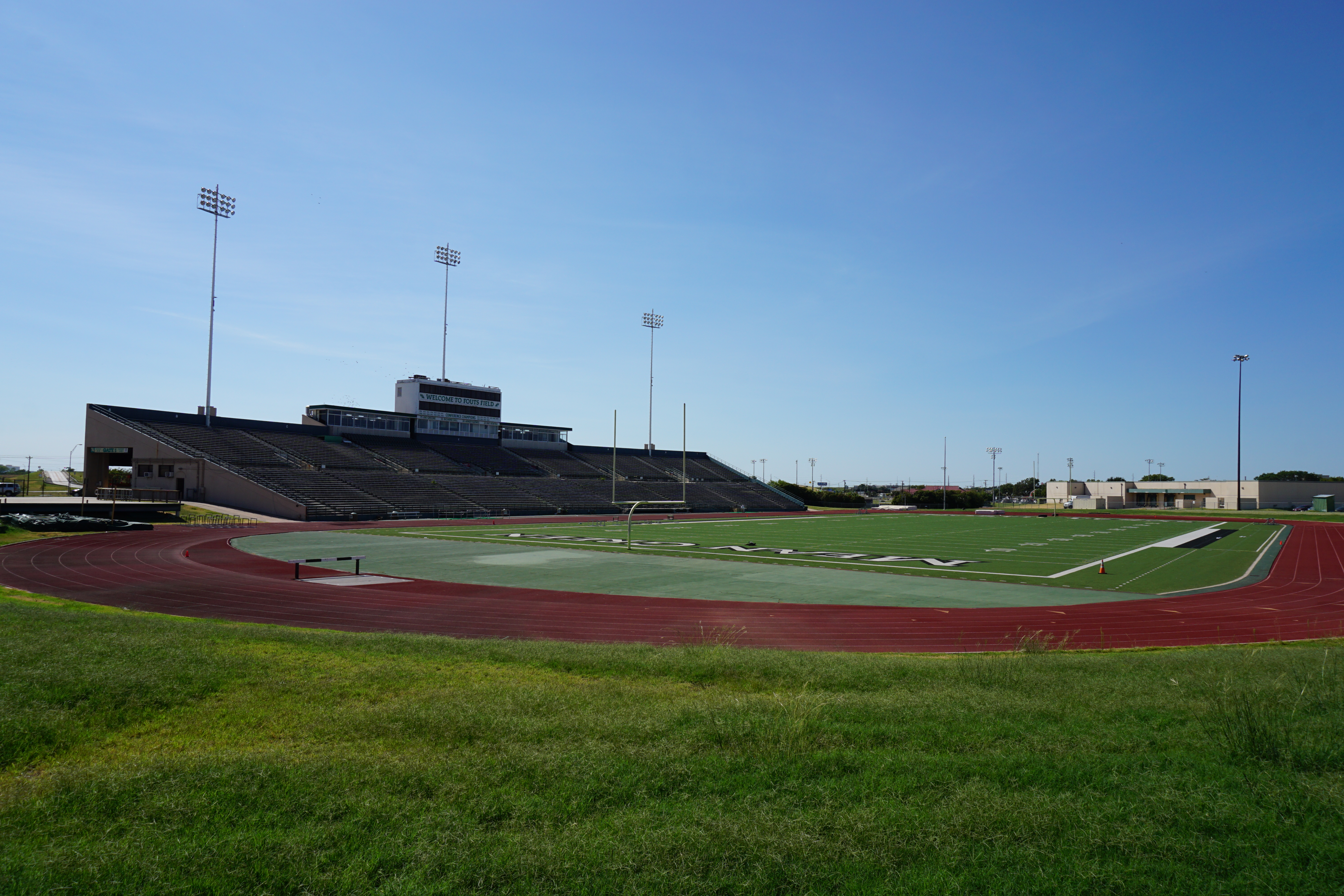 Fouts Field on the campus of the University of North Texas in Denton, Texas (United States).